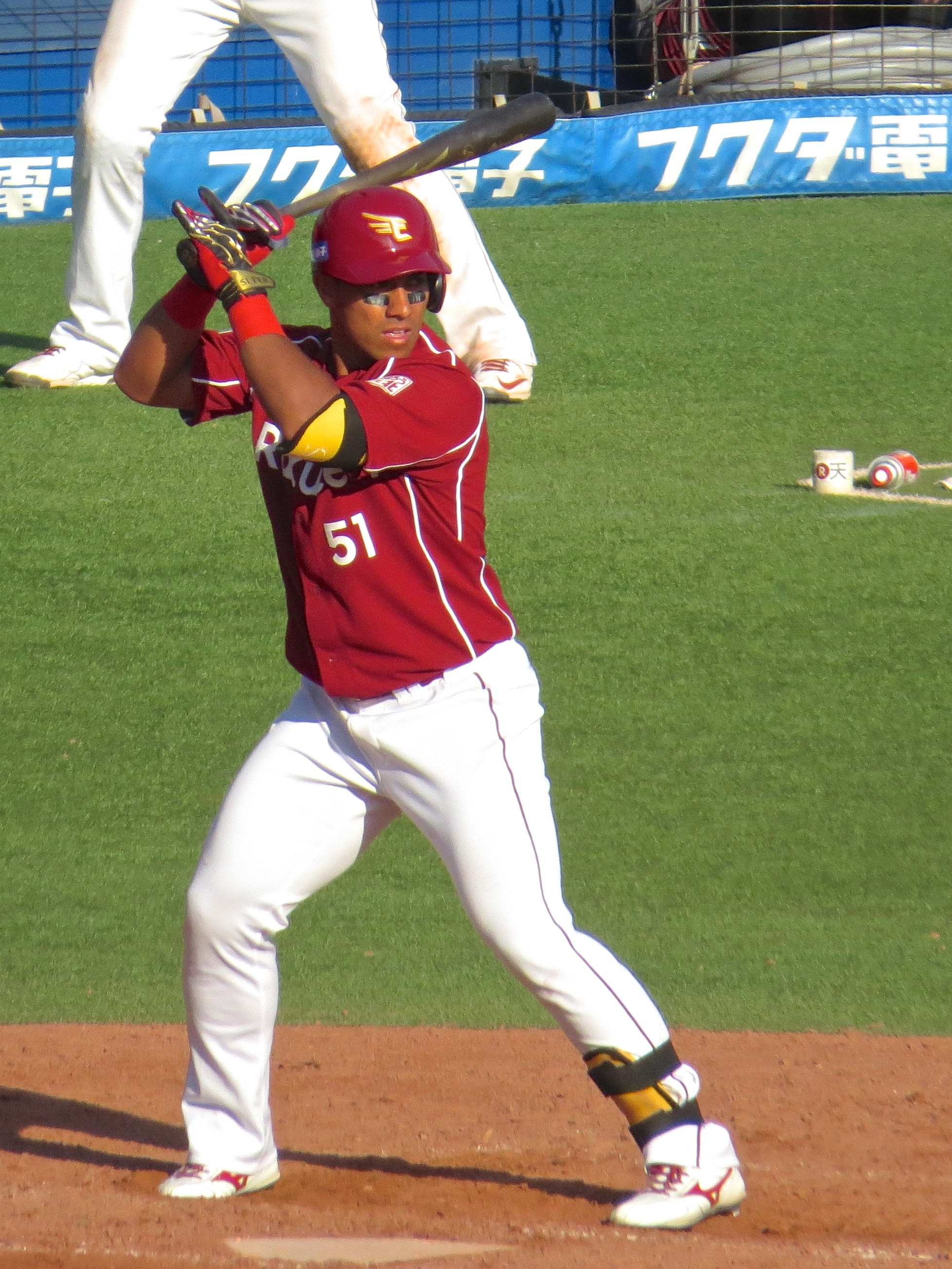 Luciano Fernando, outfielder of the Tohoku Rakuten Golden Eagles, at Chiba Marine Stadium.